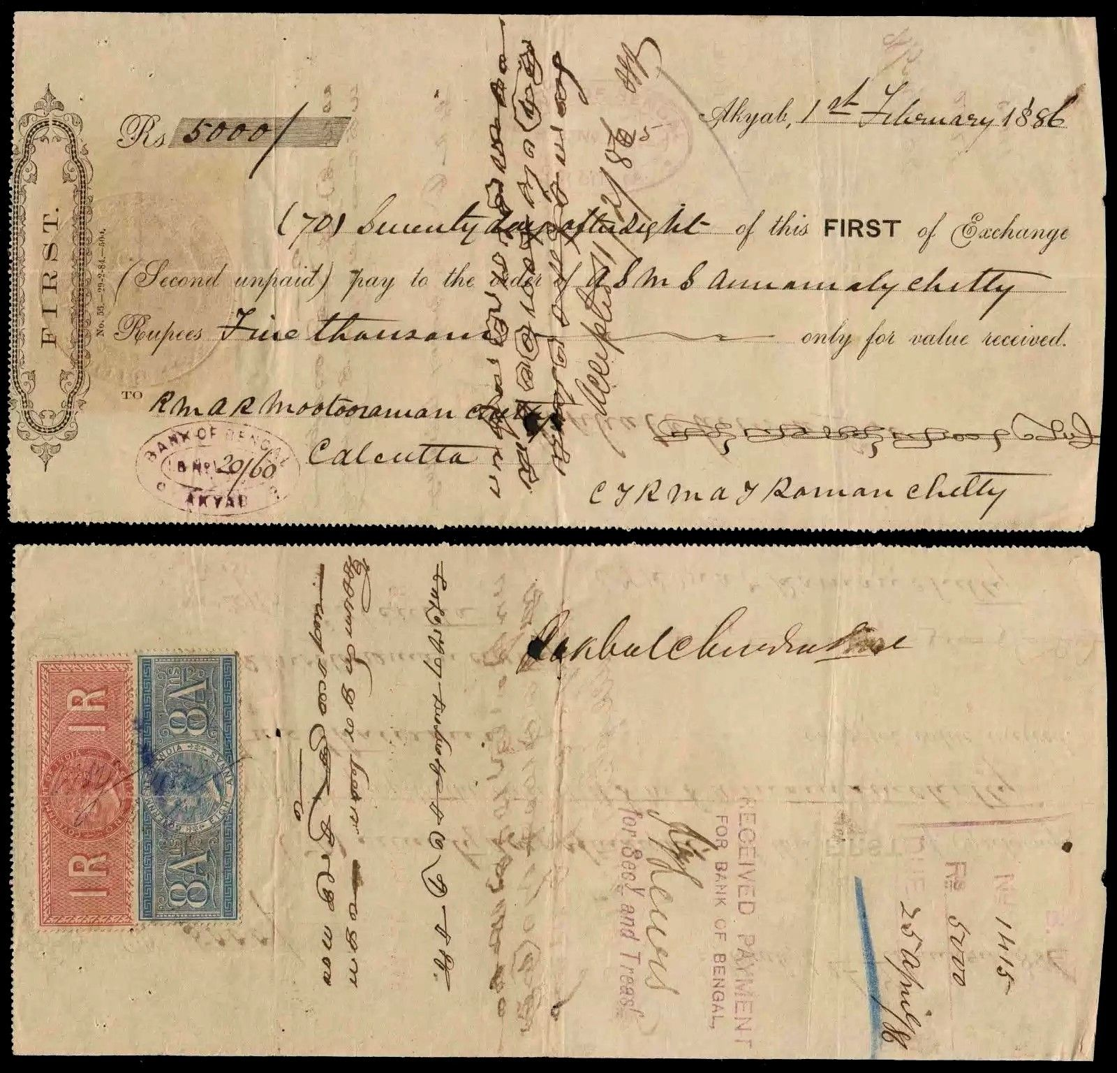 Akyab Bill of Exchange Akyab 1886 handled by the Bank of Bengal.